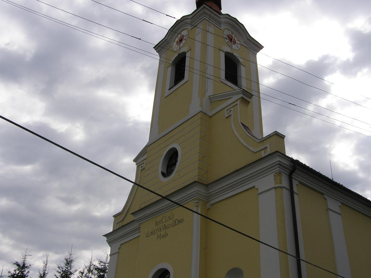 The Church of Annunciation in Alsószölnök, Hungary